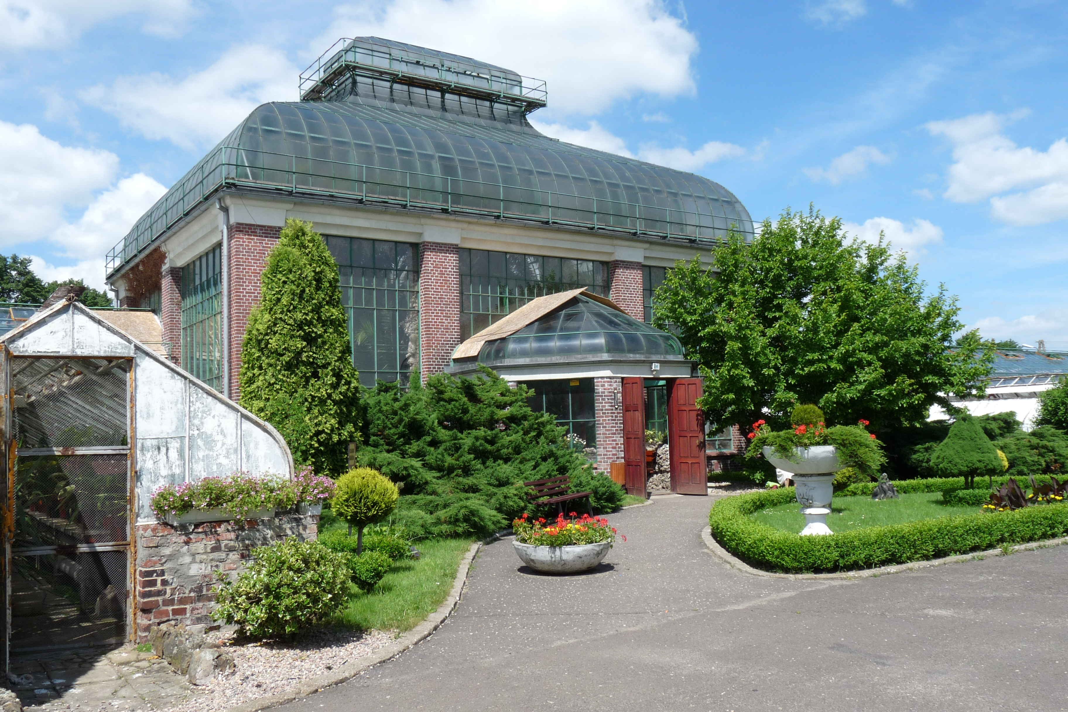 Palm House in Lubiechów